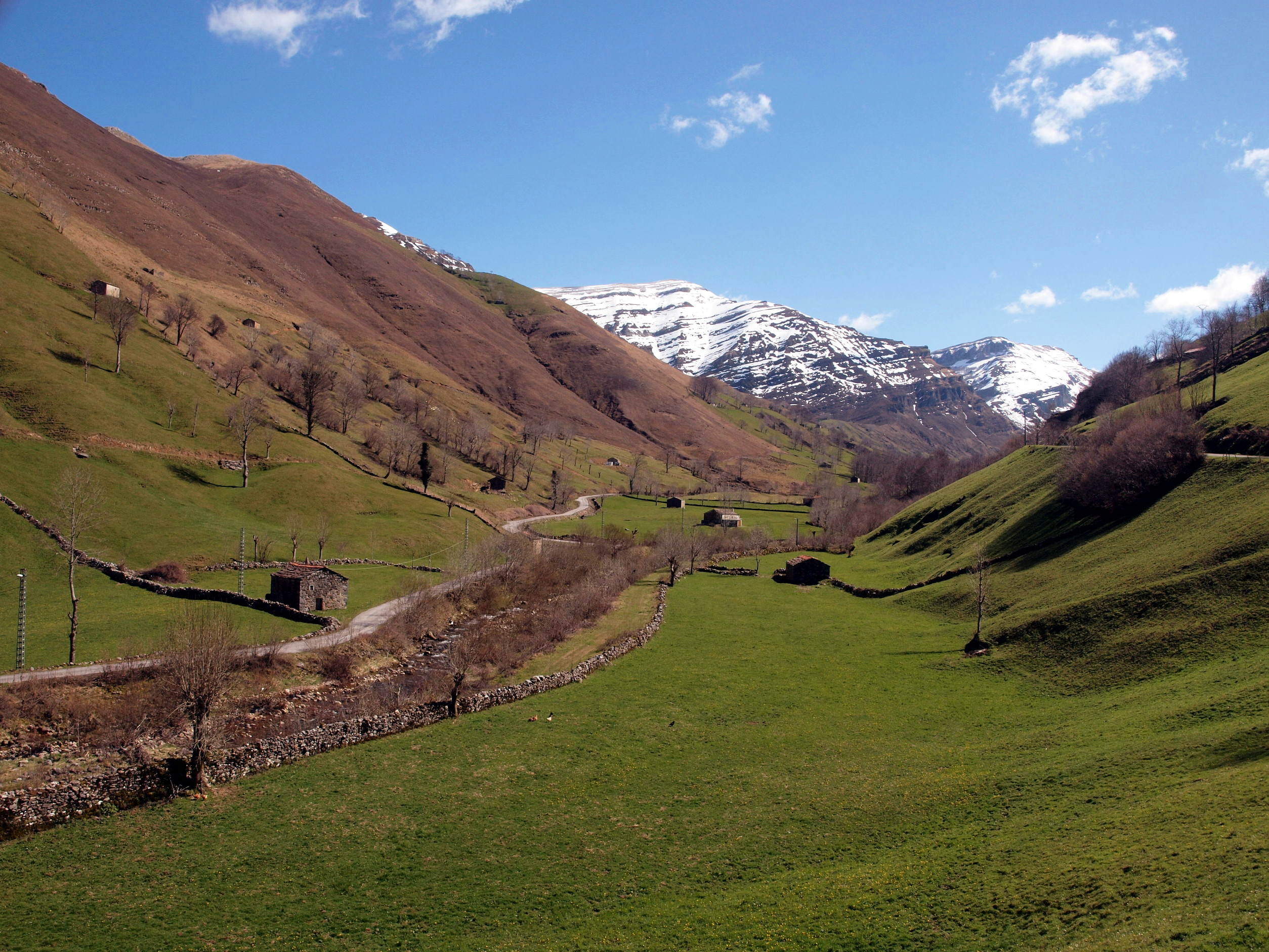 View Miera River in the hamlet of Secadía in the town of La Concha, municipality of San Roque de Rio Miera. Cantabria, Spain